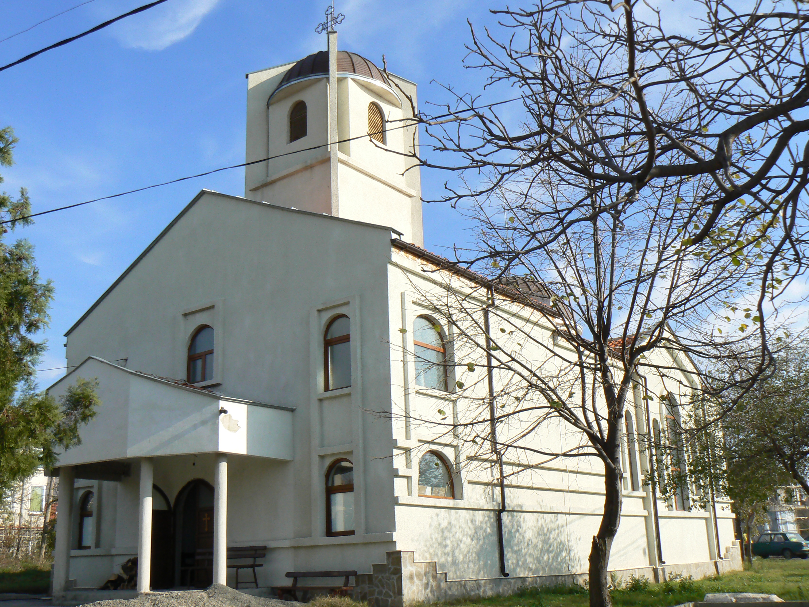 Holy Trinity church in Banevo neighborhood, Burgas, Bulgaria